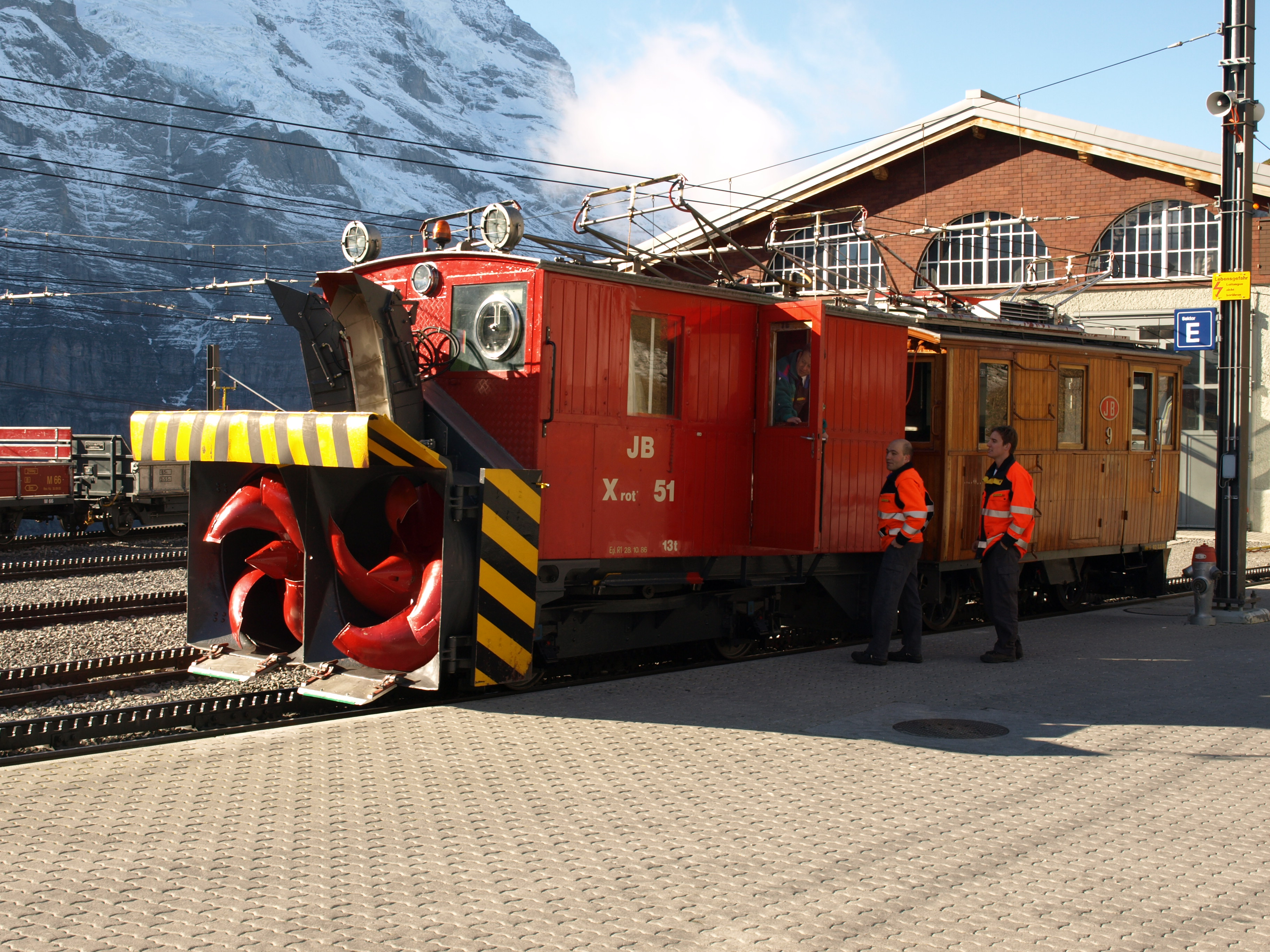 Jungfraubahn Snowplough at Kleine Scheidegg